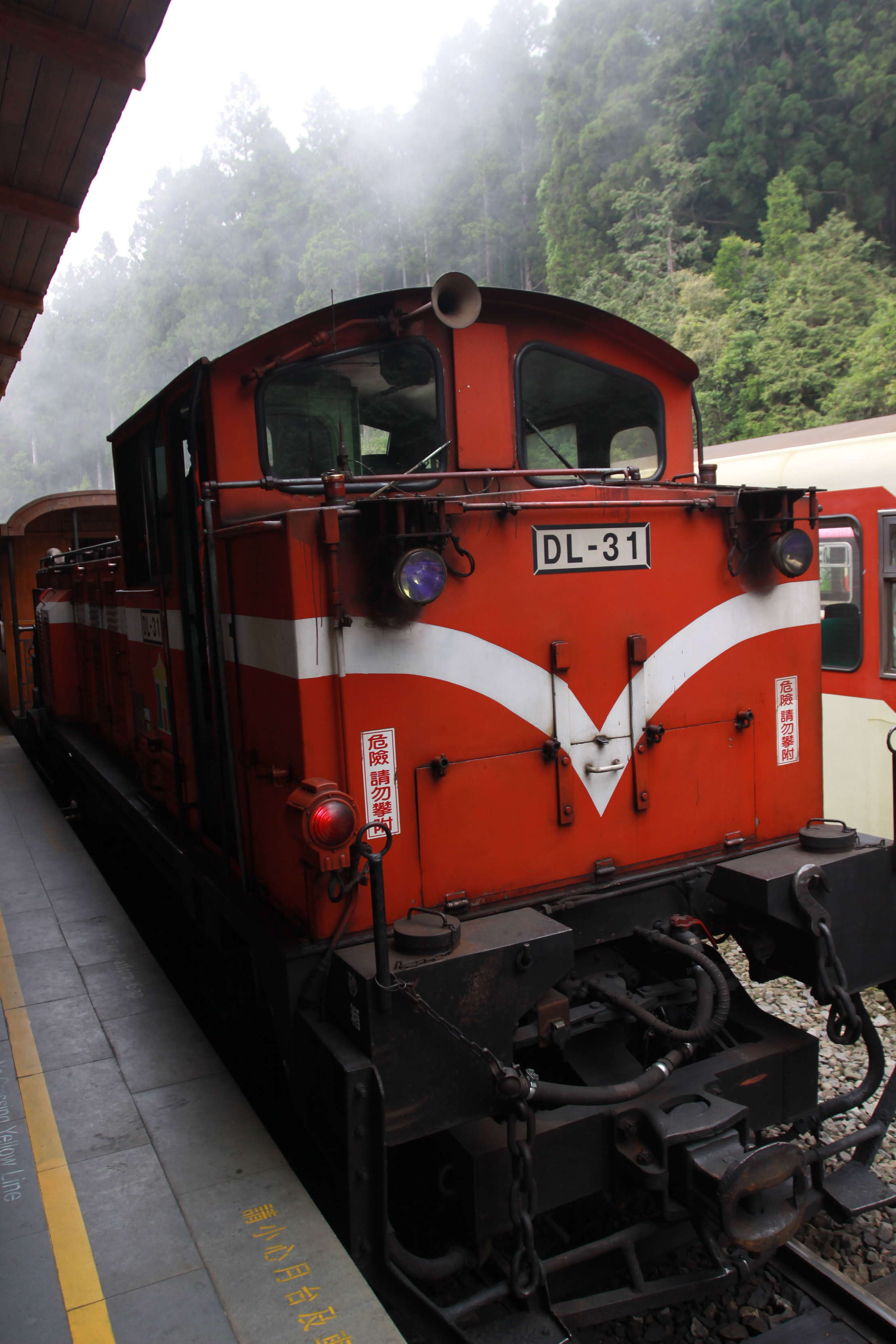 Alishan Forest Railway Diesel locomotive DL-31 @ Alishan Station